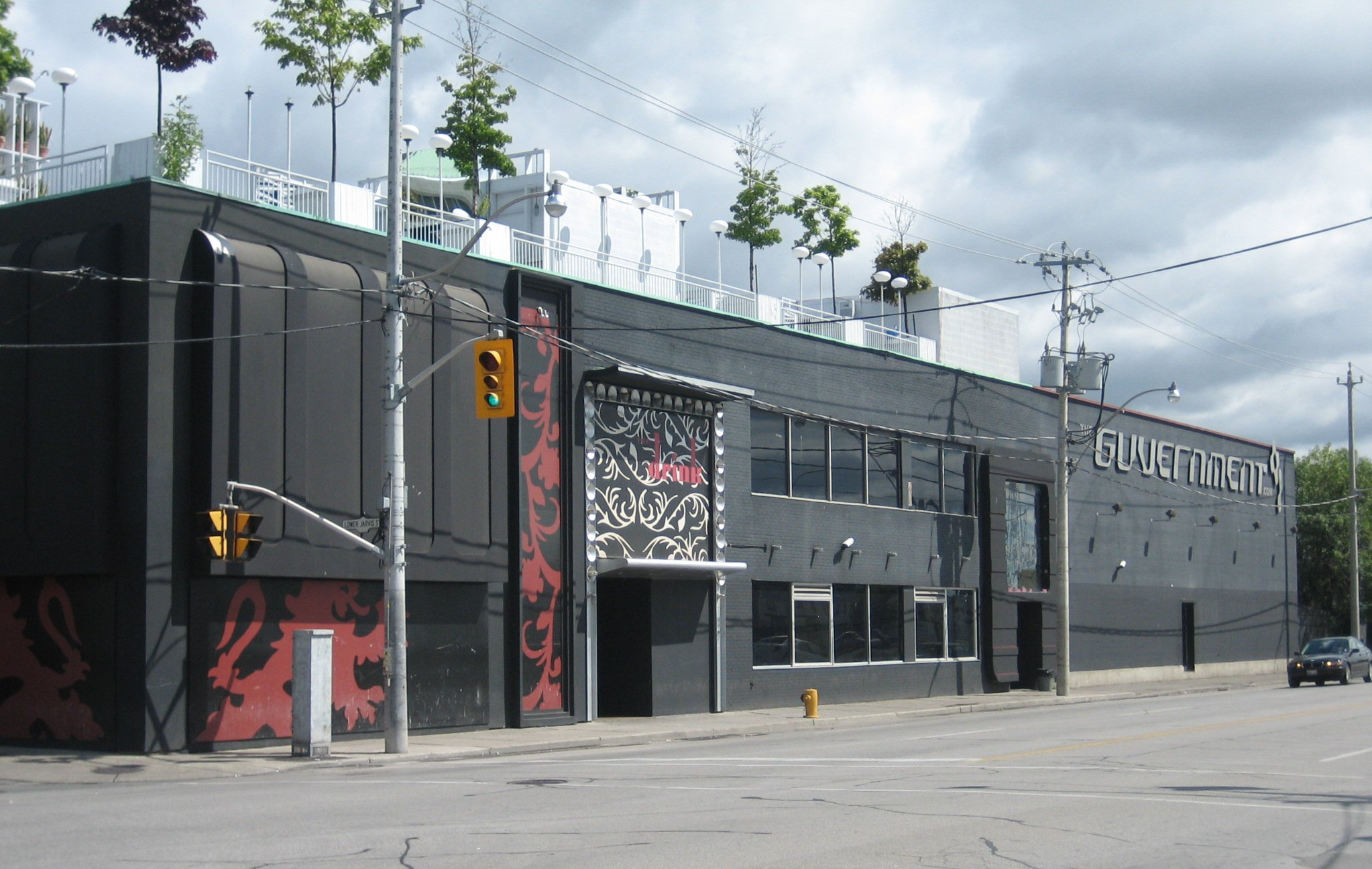 The Guvernment